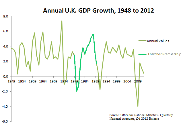 This graph shows the annual U.K. GDP Growth from 1948 to 2012, expressed in percentage terms, with data taken from the Office of National Statistics. The years under Prime Minister Margaret Thatcher, who administered the government from 1979 to1990, are highlighted. It is my own work. Please note that it ends at the Q4 2012 period. To see a version with slightly different coloring, please see: here. To see a general graph of this trend, please see: here. To see the original data set, please see: here.